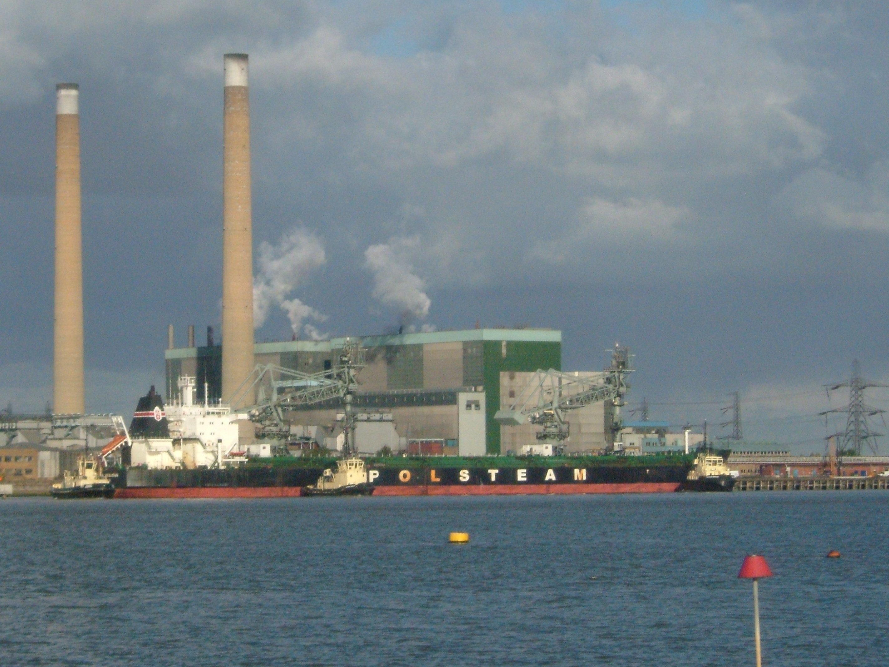 Gravesend is in North Kent, England on the River Thames. Port of London Authority Tugs attending to the berthing of Polstream Panamax coal carrier, Arnia Krajowa, at Tilbury Power Station, the opposite side of the river.Clearly seen are the two coal handling machines, that unload coal from the holds on to a conveyor belt system to the coal store.